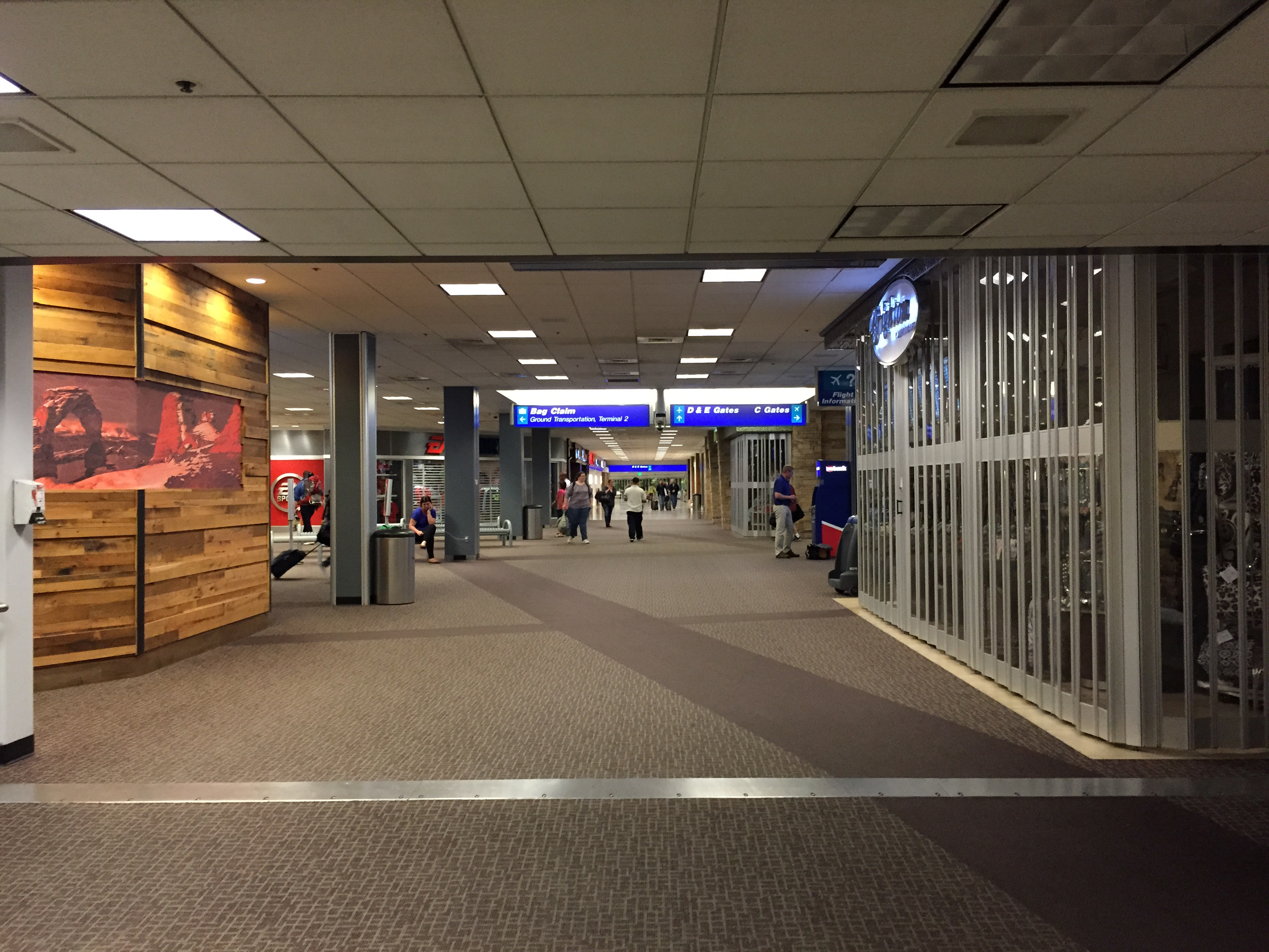 View towards the International Terminal and Concourse D from the inner end of Concourse C in Salt Lake City International Airport, Utah